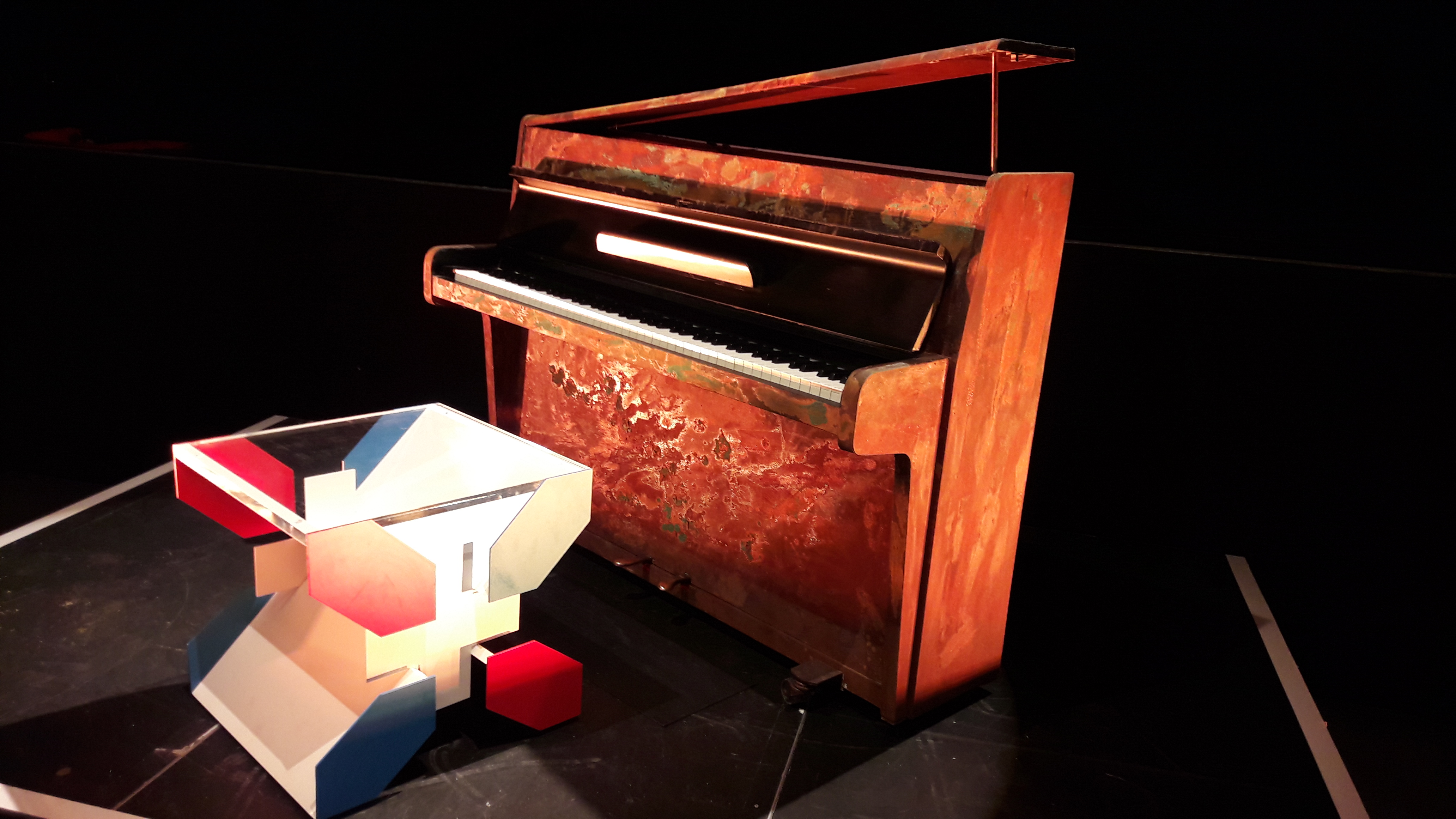 David Ianni's rusty piano - Episode 2 of MY URBAN PIANO, dedicated to the city of Esch-sur-Alzette. It's an ode to Iannis old home region, the "Minett" (south of Luxembourg), "his" HEARTLAND. Piano designed by Raphael Gindt.